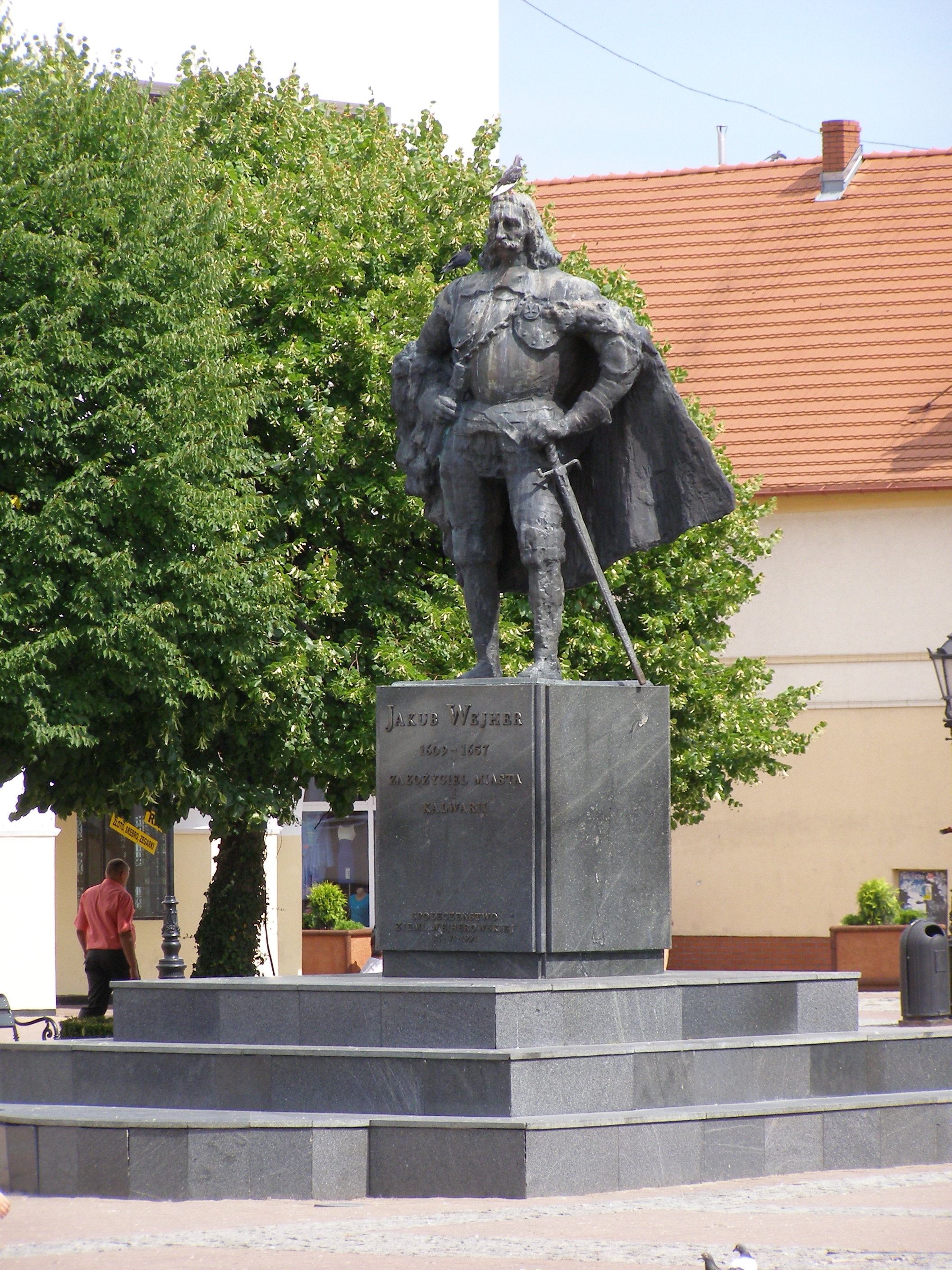 Wejherowo - Jakub Wejher statue in Wejhera sq.